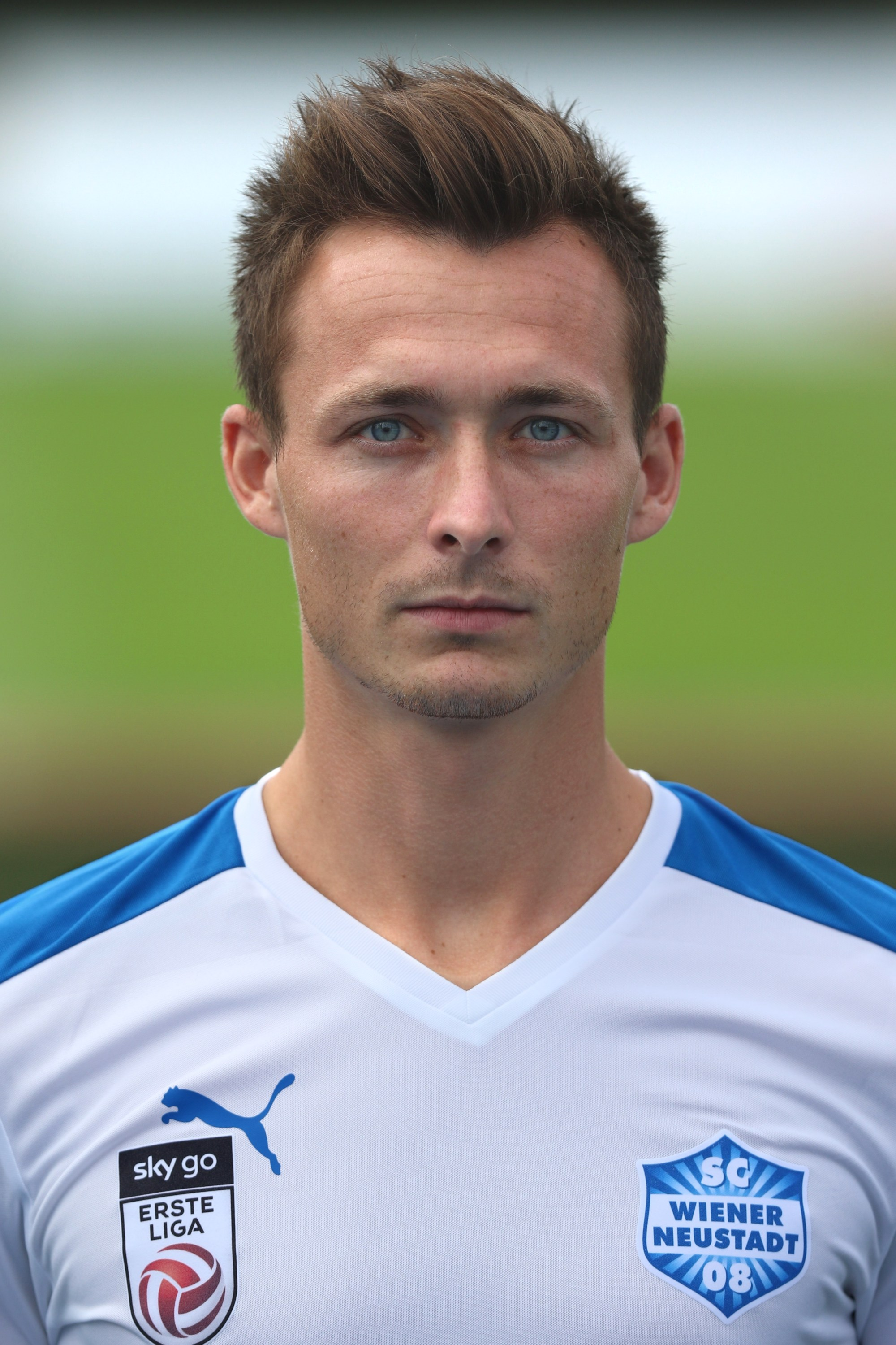 SC Wiener Neustadt squad presentation summer 2017. – The photo shows Mario Ebenhofer.